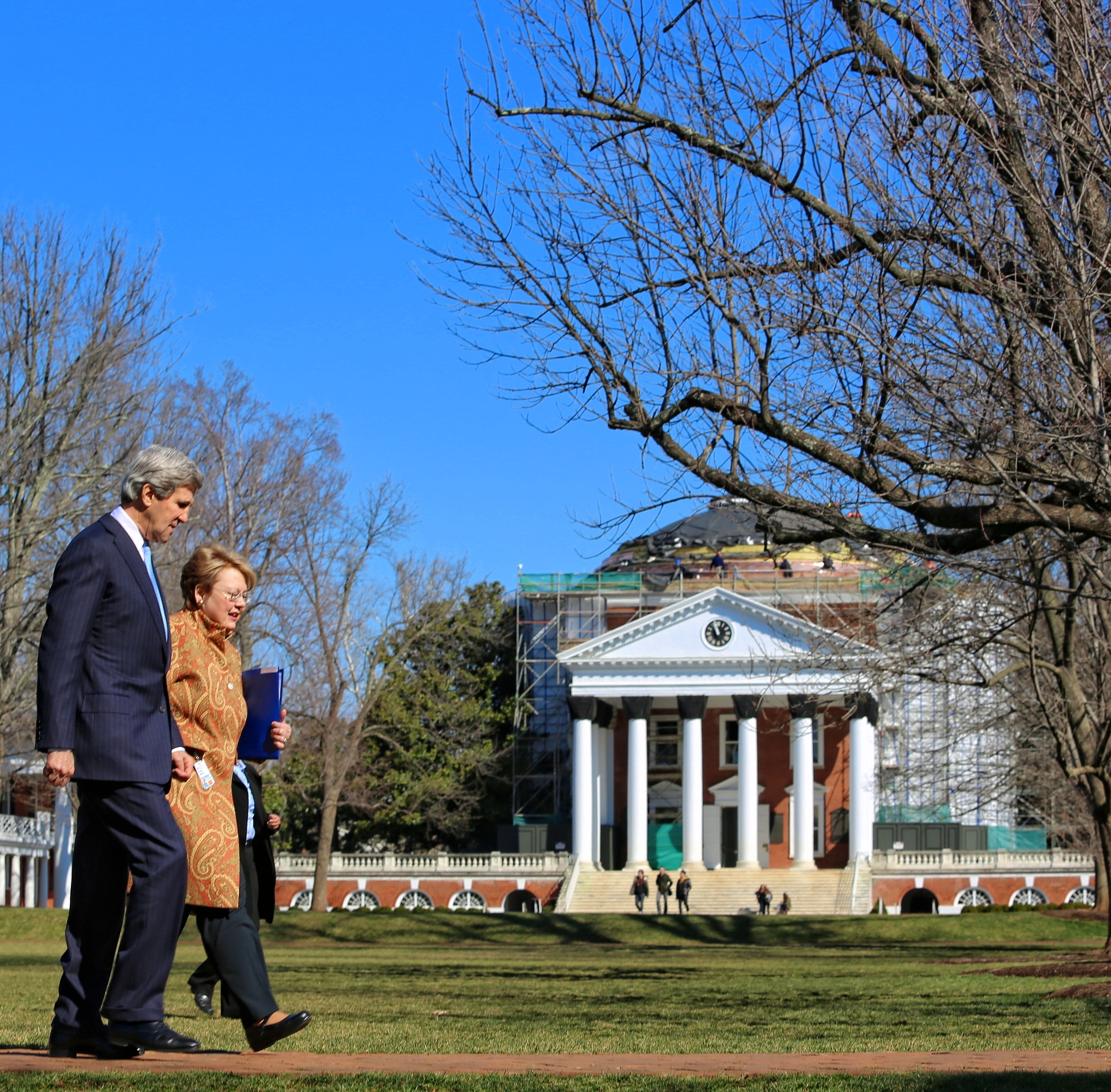 U.S. Secretary of State John Kerry is welcomed to the University of Virginia by University President Teresa Sullivan in Charlottesville, Virginia, February 20, 2013. [State Department photo/ Public Domain]